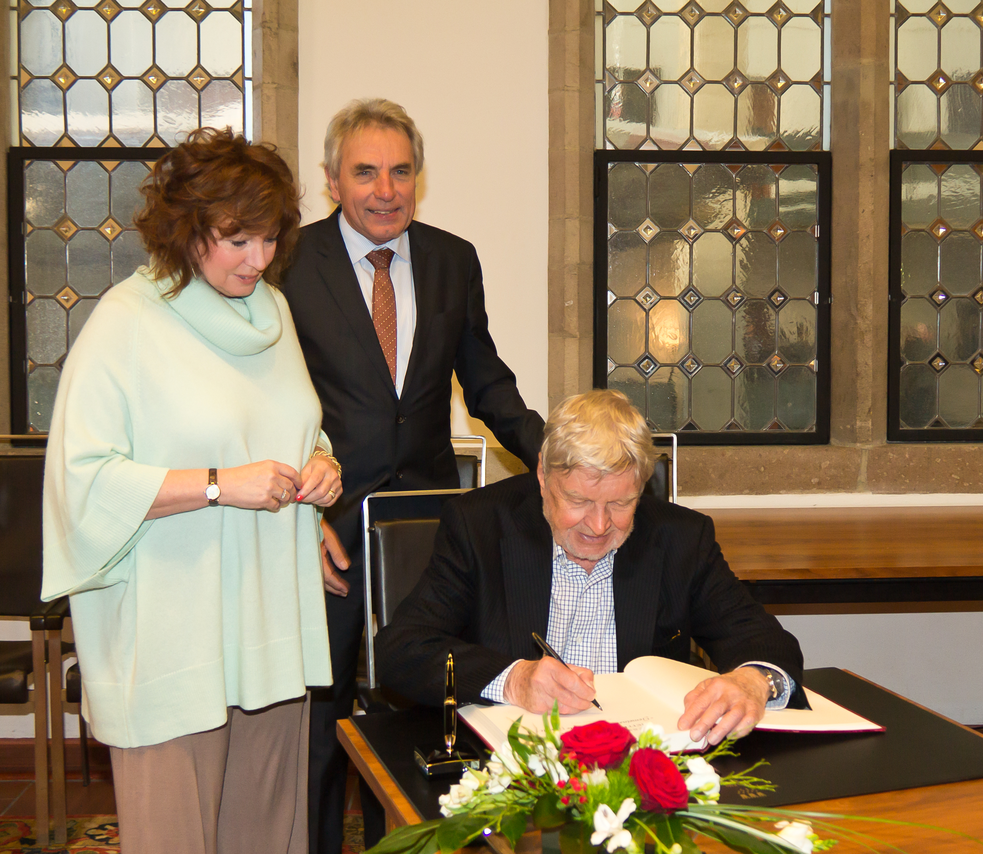 Press conference „Gemeinsam gegen rechte Gewalt“ in the town hall of Cologne, Germany with Hardy Krüger. Photo: Hardy Krüger is signing the guest book of the city of Cologne. Behind: His wife Anity Krüger and Lord Mayor Jürgen Roters